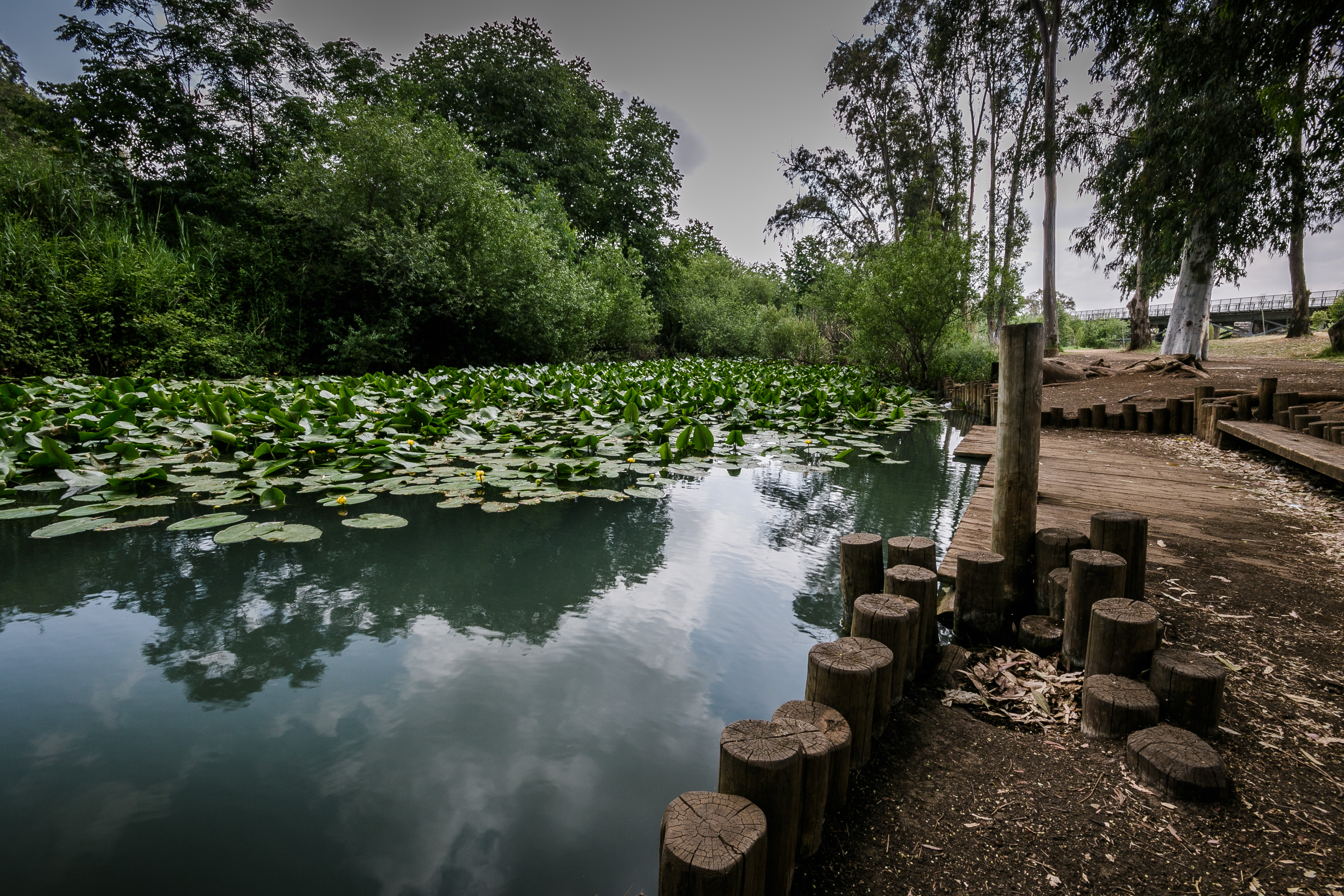 Tel Afek, Geography of Israel